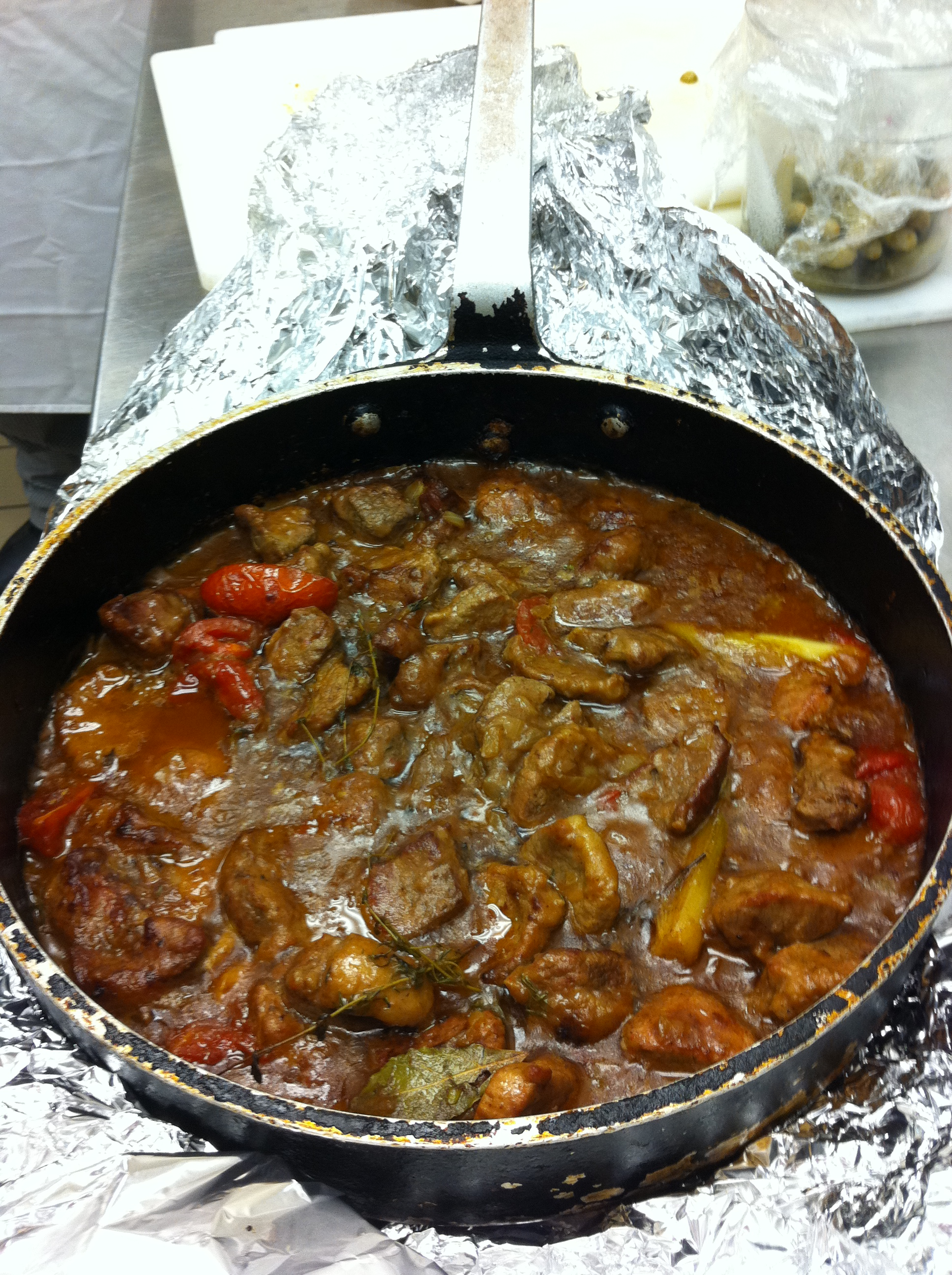 Navarin D'Agneau Printanier, a Lamb Stew with Spring Vegetables. This is the dish just as it has come out of the oven.